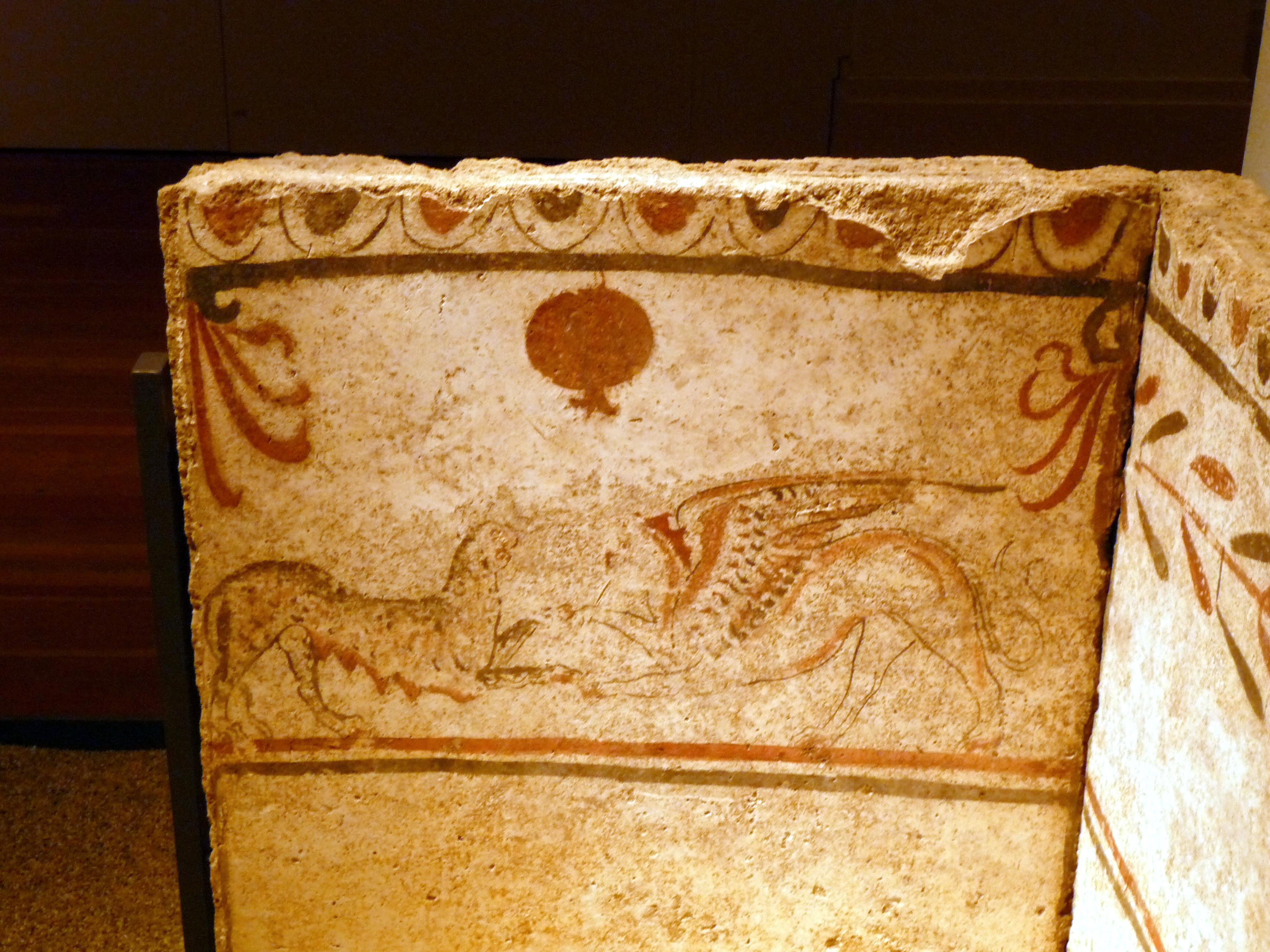 ancient greek tomb with frescoes in Paestum